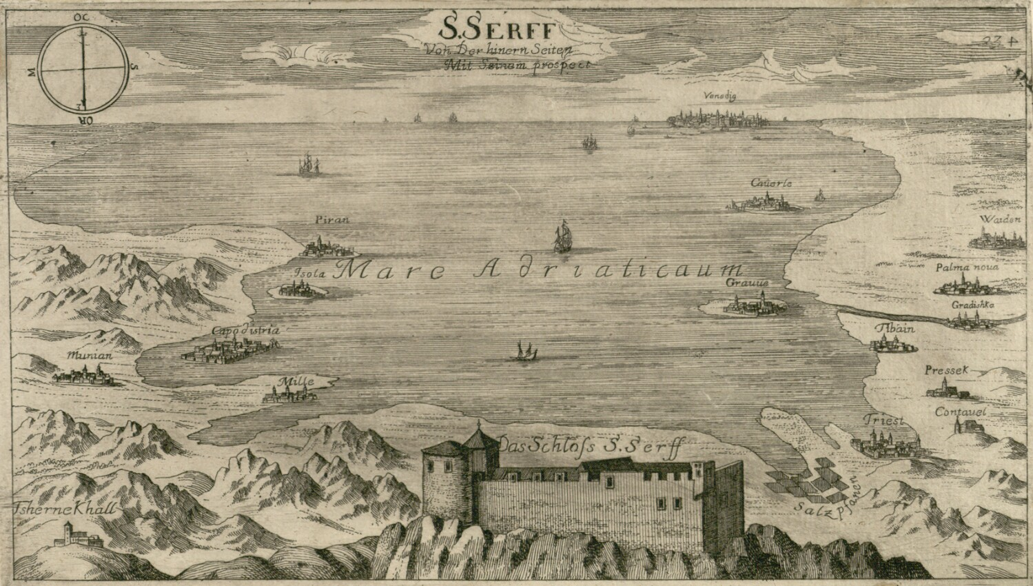 Socerb Castle